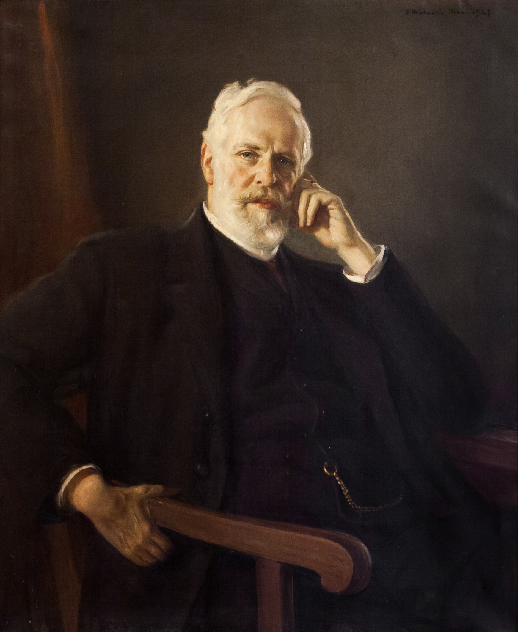 Friedrich von Tiersch, portrait painting from 1927, Kurhaus Wiesbaden